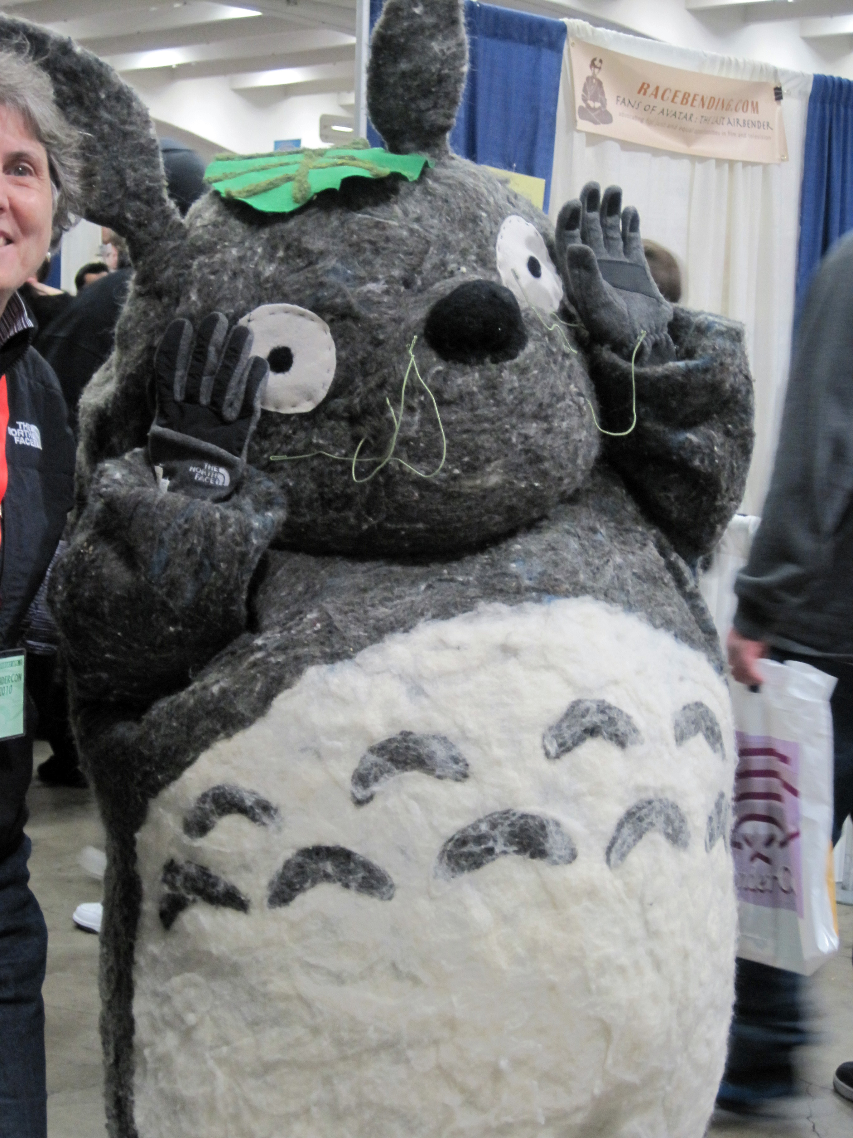 A cosplayer portraying Totoro from My Neighbor Totoro at WonderCon 2010.